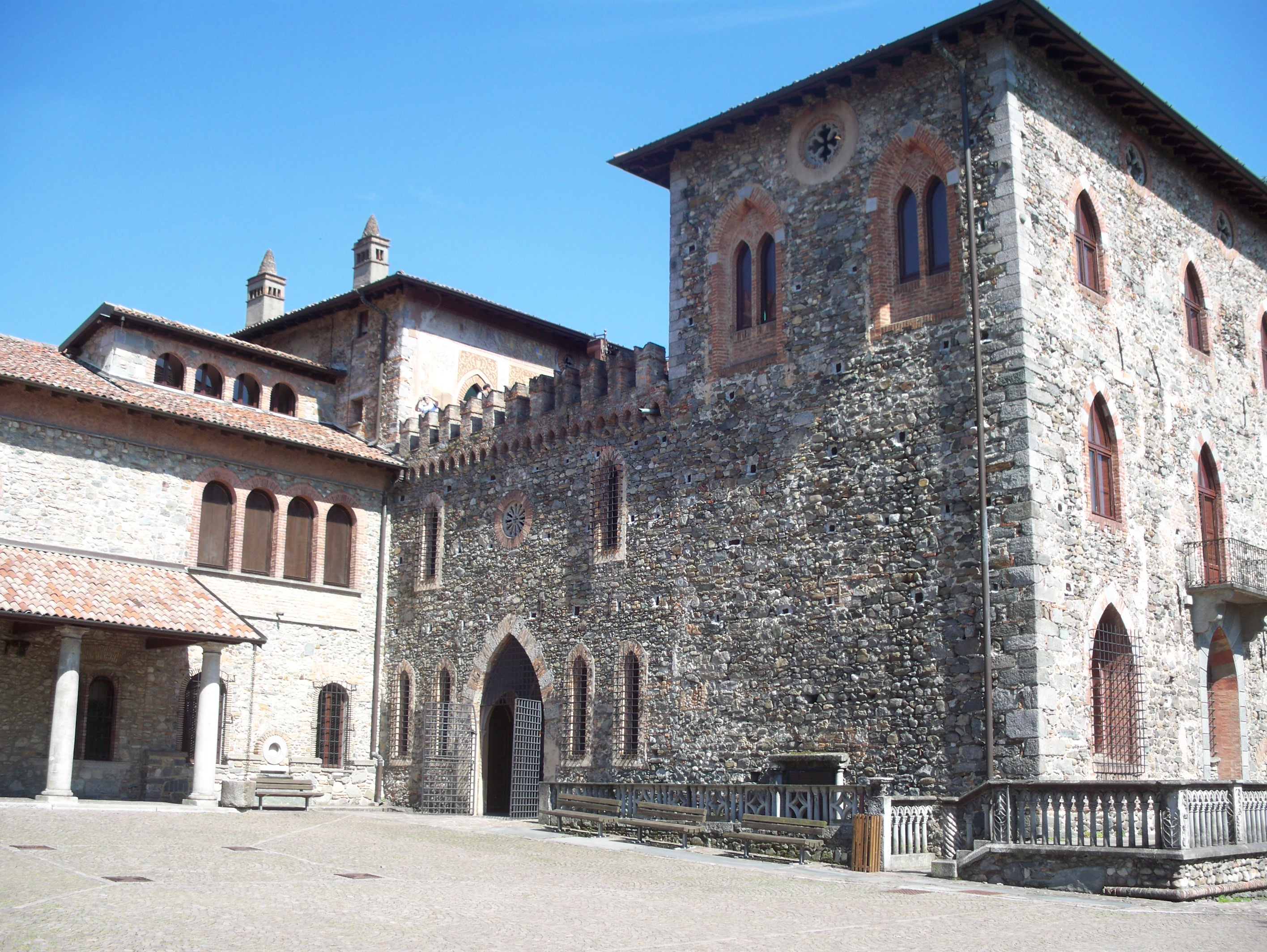 Monguzzo Castle